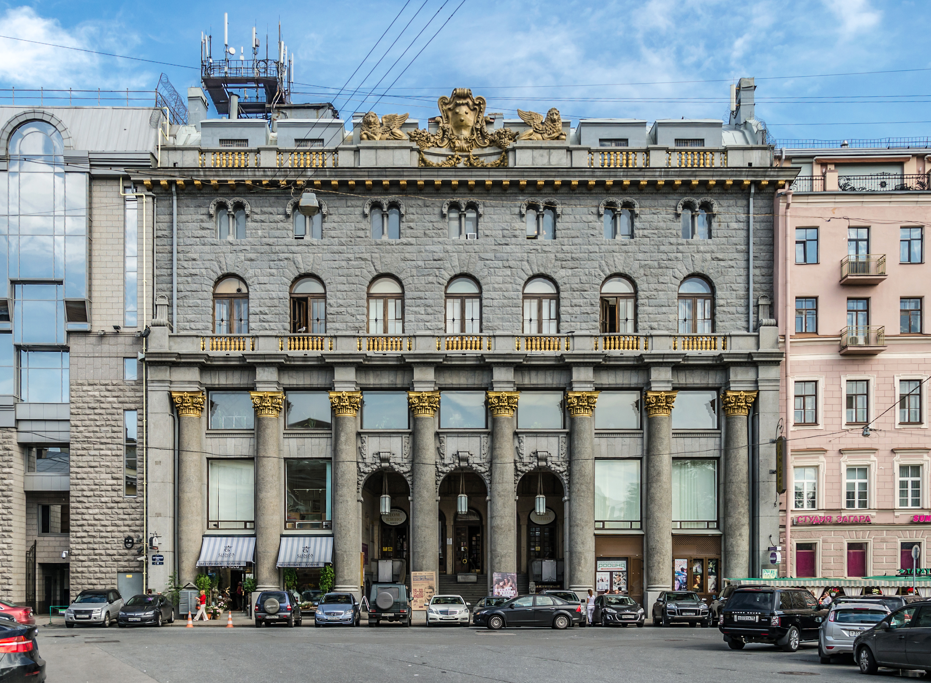 Movie House (Dom Kino) in Saint Petersburg